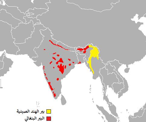 Distribution of Panthera tigris tigris is in red. Distribution of questionable population now considered to belong to Panthera tigris corbetti is in yellow. Includes national borders.